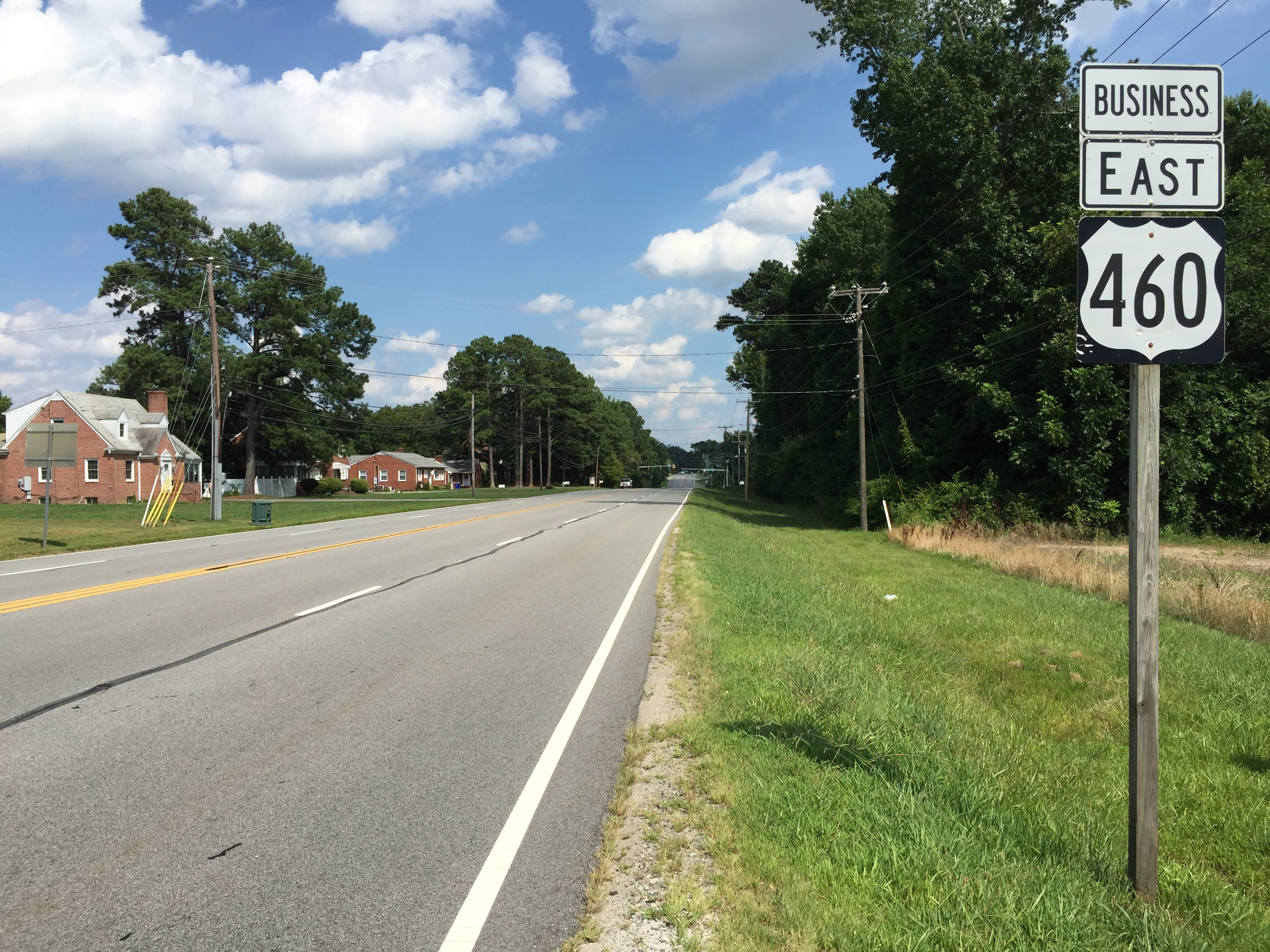 View east along U.S. Route 460 Business (Pruden Boulevard) at Sadler Pond Drive in Suffolk, Virginia